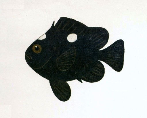 Dascyllus trimaculatus